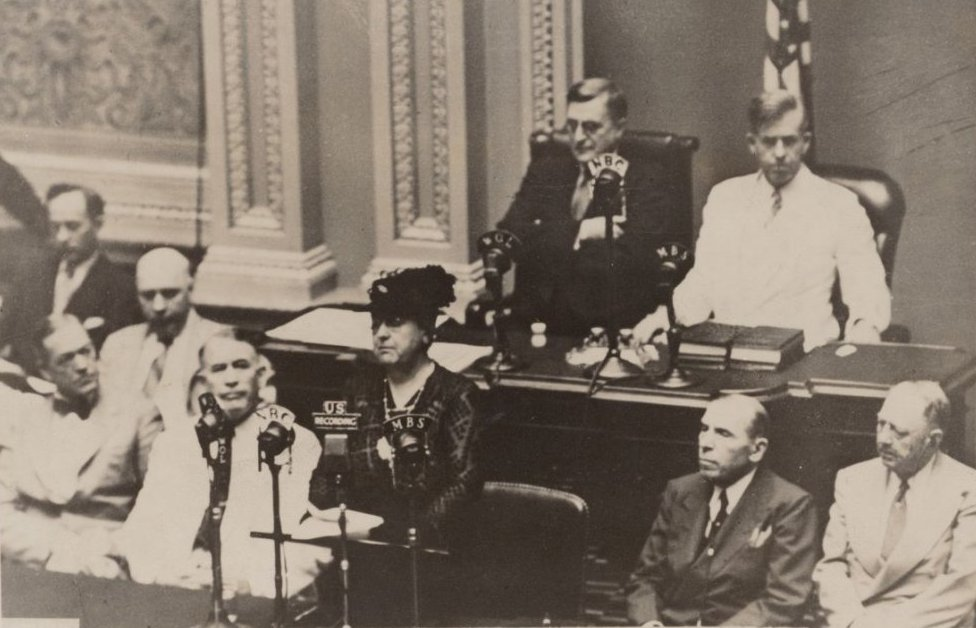 Queen Wilhelmina speaks to the American Congress in Washington DC, on August 6, 1942 Hebt u meer informatie over deze foto, laat het ons weten. Laat een reactie achter (als u ingelogd bent bij Flickr) of stuur een mailtje naar: Please help us gain more knowledge on the content of our collection by simply adding a comment with information. If you do not wish to log in, you can write an e-mail to: Meer foto’s van het Nationaal Archief zijn te vinden in de fotocollectie op gahetna.nl